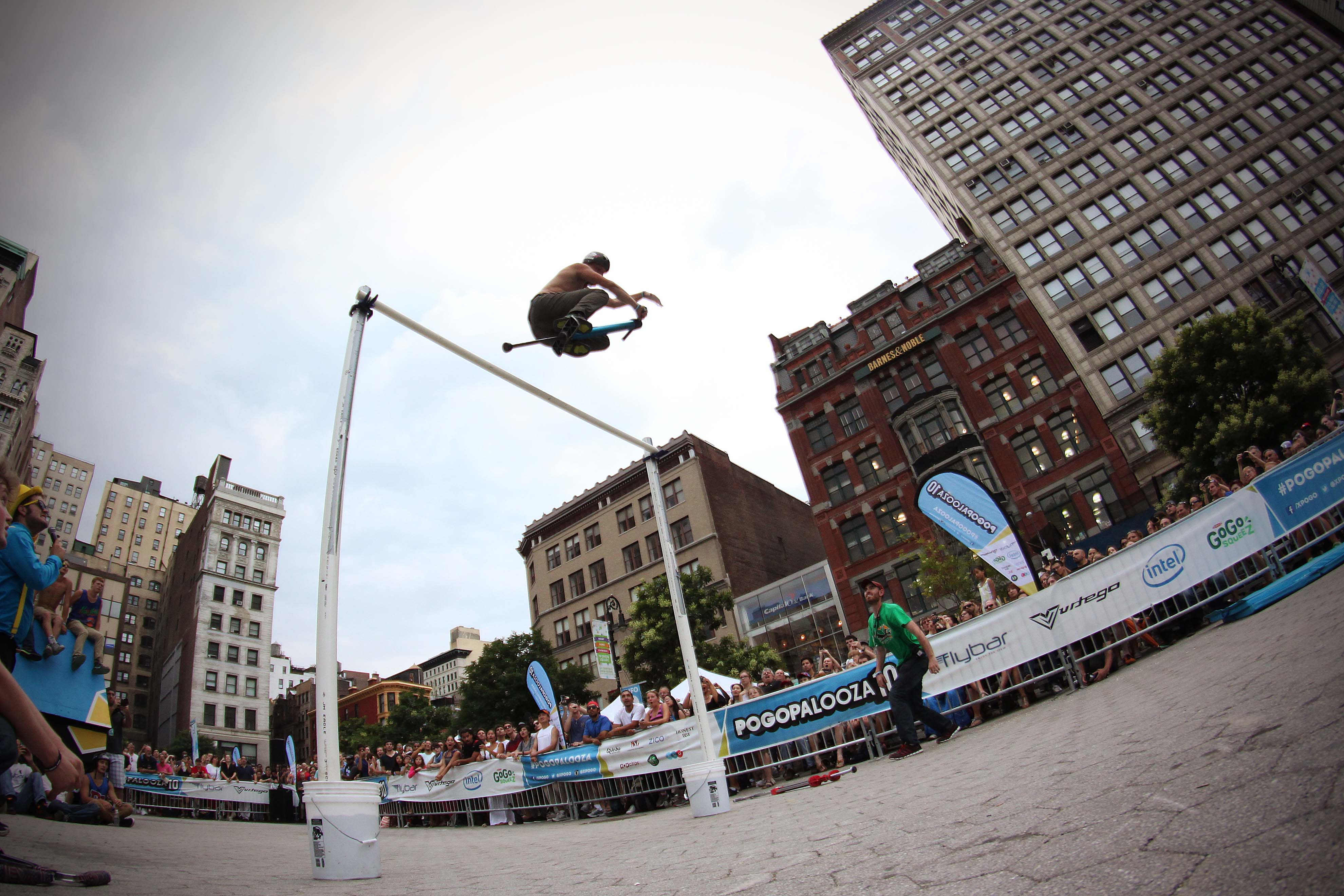 This is a picture of Biff Hutchison setting the World Record for High Jump on a pogo stick during Pogopalooza 10